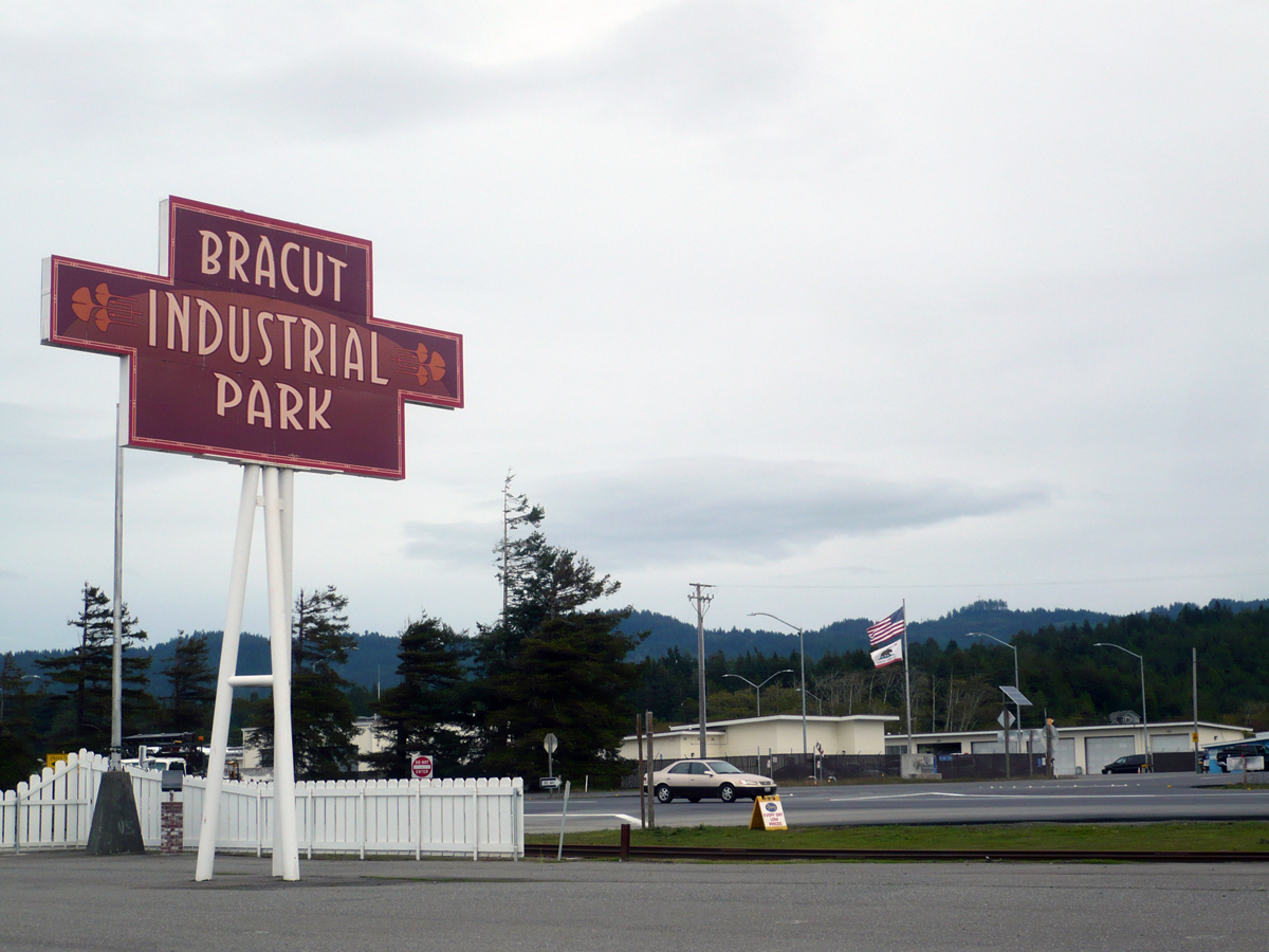 The CALTRANS District 1 yard at Bracut, California. Bracut is an unincorporated community located on the Northwestern Pacific Railroad 3 miles (4.8 km) south of Arcata, at an elevation of 16 feet (5 m) in Humboldt County, California. The name originated as a contraction of the railway cut through Brainard hill in the Humboldt Bay salt marsh. The leveled hill provided fill for the railway, the flat remains are now now the site of several large structures remaining from previous lumber operations in the Bracut Industrial Park, the CALTRANS yard at center of photo and and a campground out of view to right.